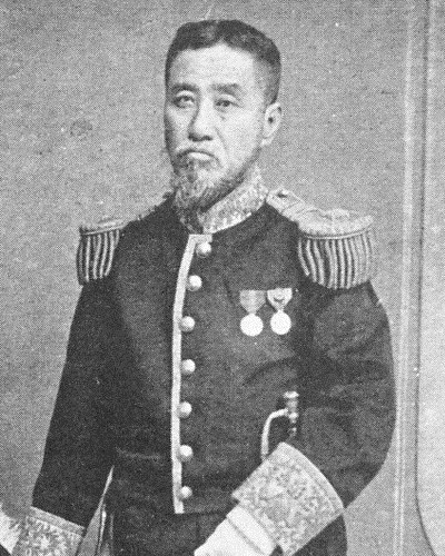 Naoyasu Matsudaira